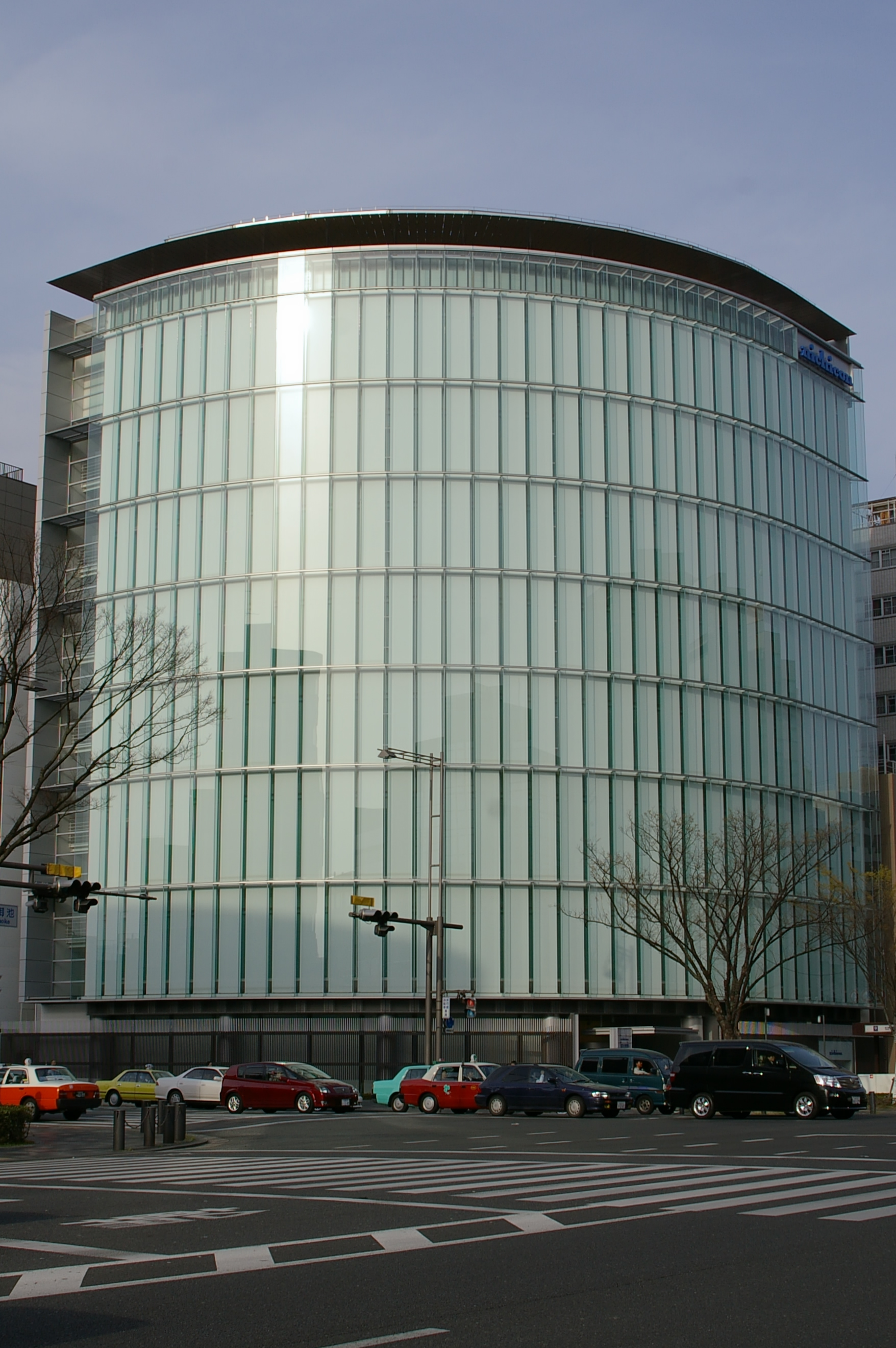 Photograph of Nichicon Building, head office of Nichicon Corporation in Nakagyo-ku, Kyoto, Kyoto Prefecture, Japan.